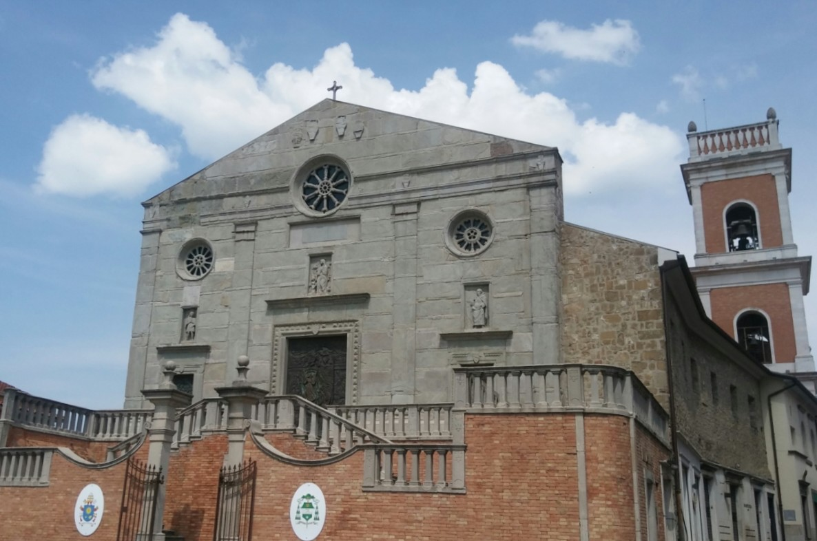 A view of Ariano Irpino Cathedral, Italy